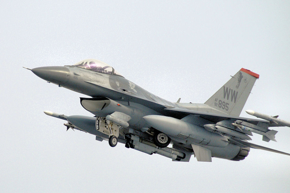 An F-16 out of the 13th Fighter Squadron takes off for a deployment to the Republic of Korea Feb. 23, 2009. More than 300 Airmen will support the 13th FS in an effort to balance assets to support regional stability in the Asia-Pacific theater and meet the needs of the ongoing Global War on Terrorism. (U.S. Air Force photo by Senior Airman Jamal D. Sutter)